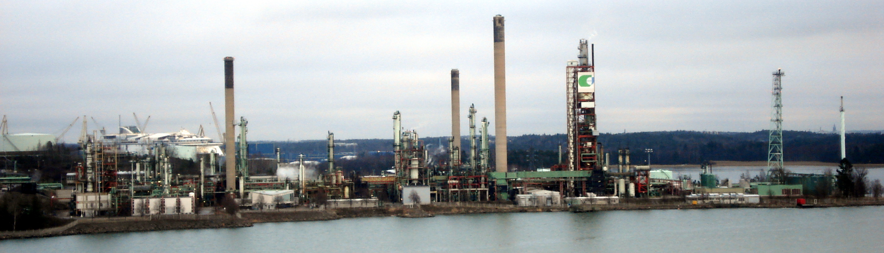 Neste Oil's Naantali refinery is located at Naantali in western Finland, close to Turku.